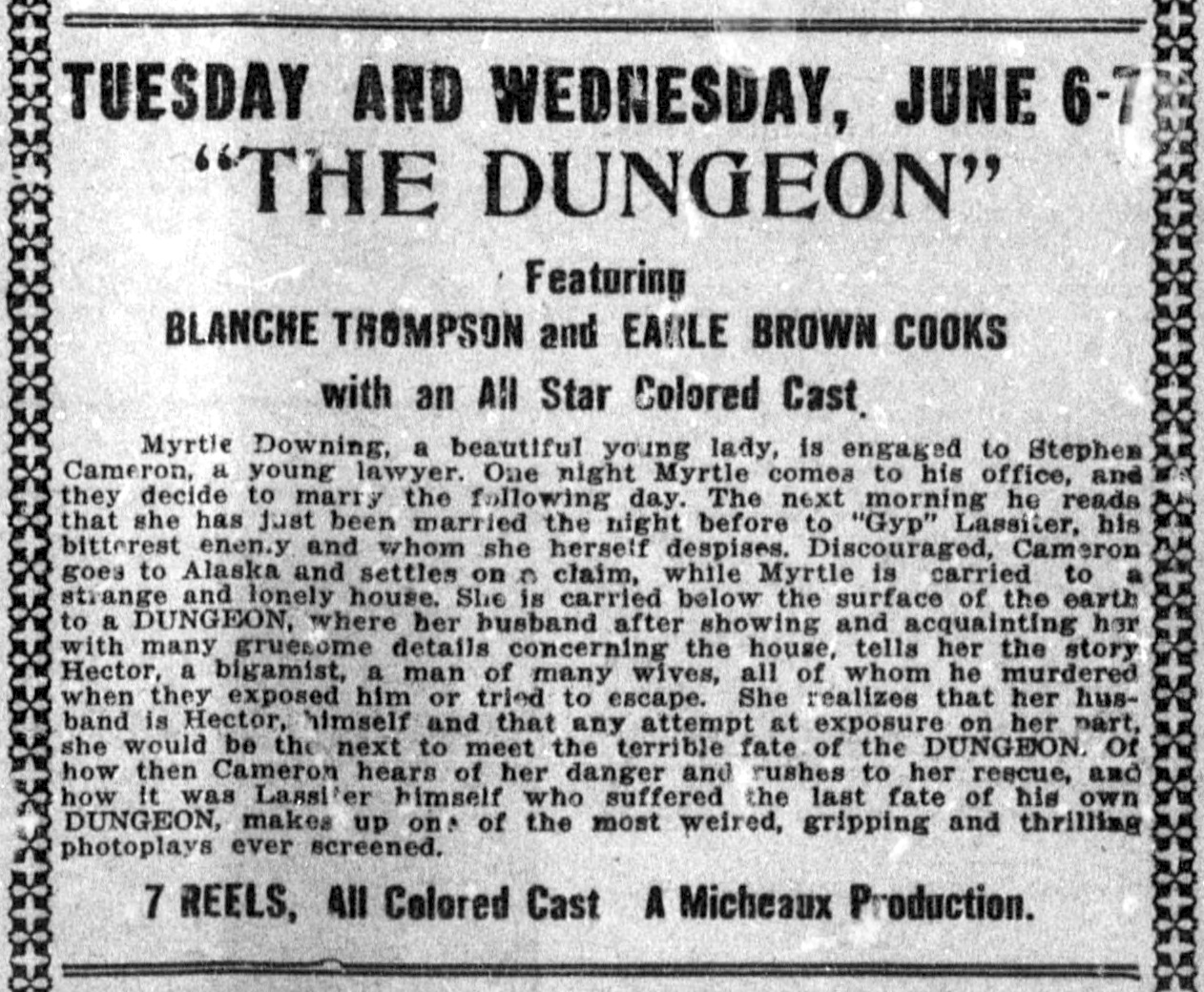 The Dungeon is a 1922 'race film' directed, written, produced and distributed by Oscar Micheaux. This is a text advert for the film.